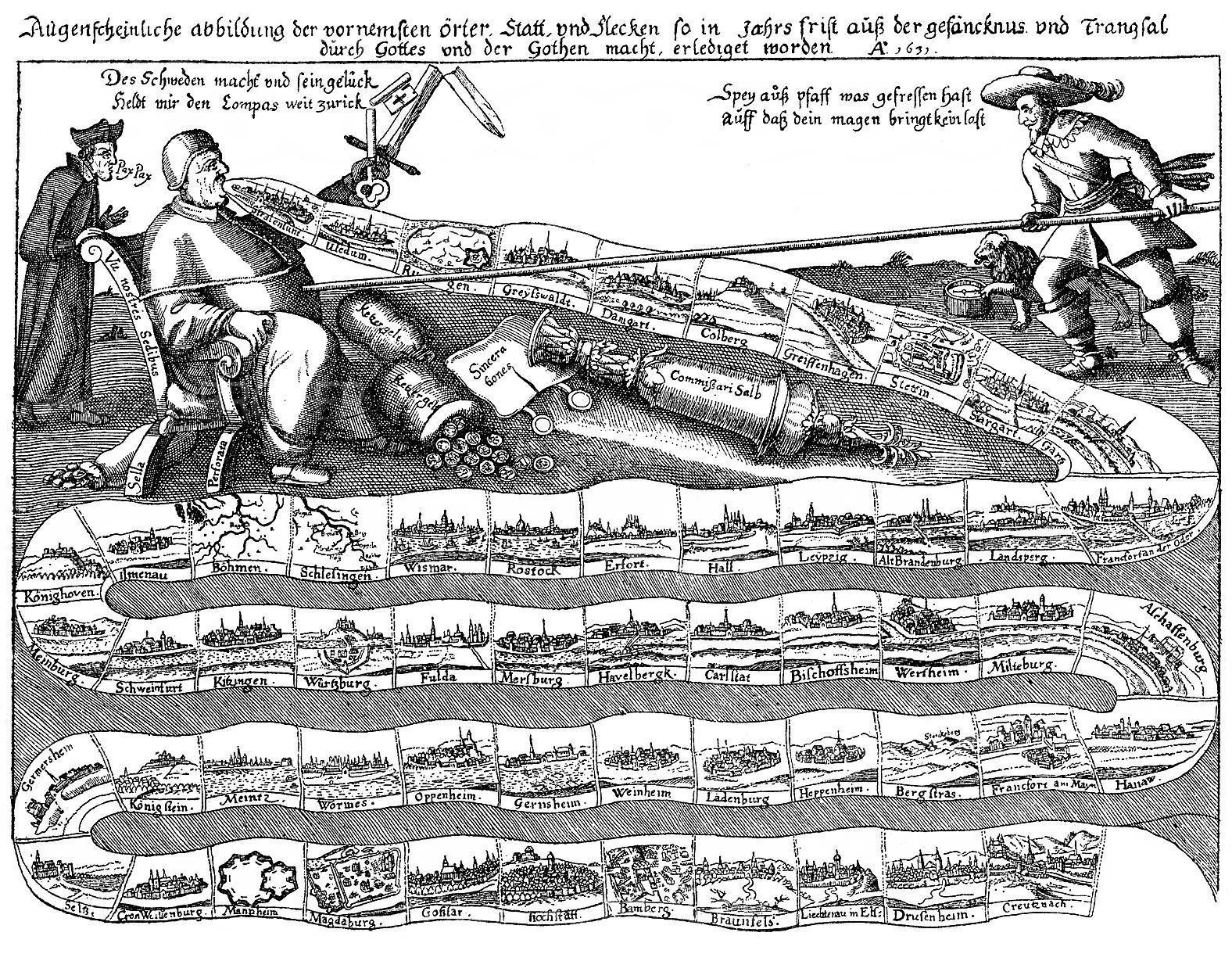 Swedish progress continues (1631) During the Thirty Years War, some broadsheets were closely linked to the changing daily news. Here we see Gustavus Adolphus forcing the pope, as a symbol of the Catholic cause, to disgorge cities and fortresses captured from the Protestants during the 1630s. The sequence, almost resembling a strip-cartoon, includes the places taken or relieved by the Swedes on their march from Stralsund on the Baltic to Kreuznach in the Rhineland. Space has been left for the insertion of further victories in later editions of the print! From British Library, Call no. 1750.b. 29/67*